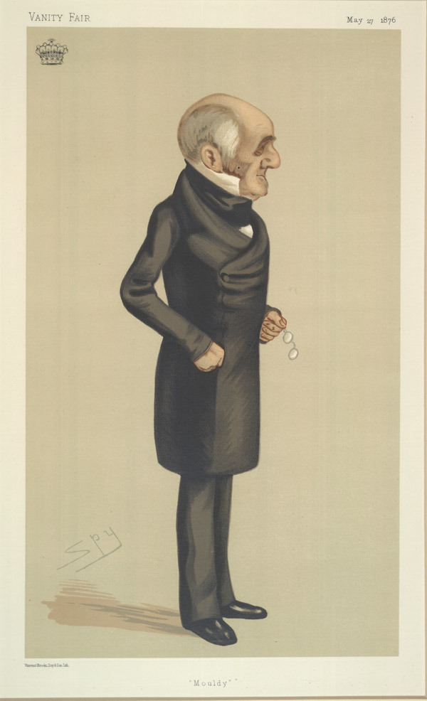 Statesmen No.224: Caricature of The Earl of Powis. Viscount Clive between (1839-1848). Caption reads: "Mouldy"